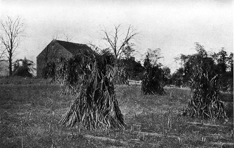 Image from The Book of Hallowe'en. Caption "In Hallowe'en Time."